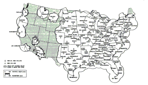 Composite Pre-NEXRAD coverage at 10,000 feet above radars sites for the continuous United States and radar types